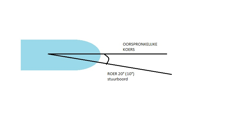 Het roer wordt 20° (10°) aan een zijde gelegd.